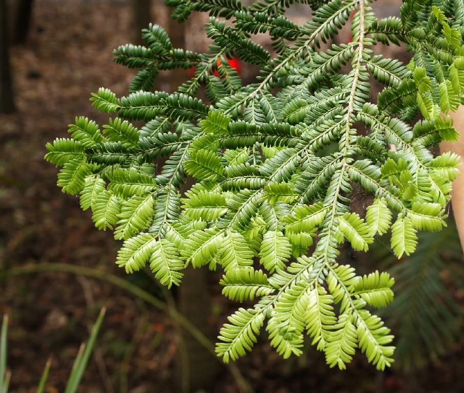 Prumnopitys ladei - Mt Spurgeon Pine. Australian conifer - rare and endangered and is an ancient plant. Endemic to - Australia Note: Mount Spurgeon is a mountain located near the South Pacific Ocean in the north of Queensland (near Mossman and Port Douglas). At about 1318m above sea level, Mount Spurgeon is the fifth highest mountain in Queensland. Photographed in Mt. Coot-tha Botanic garden, Brisbane